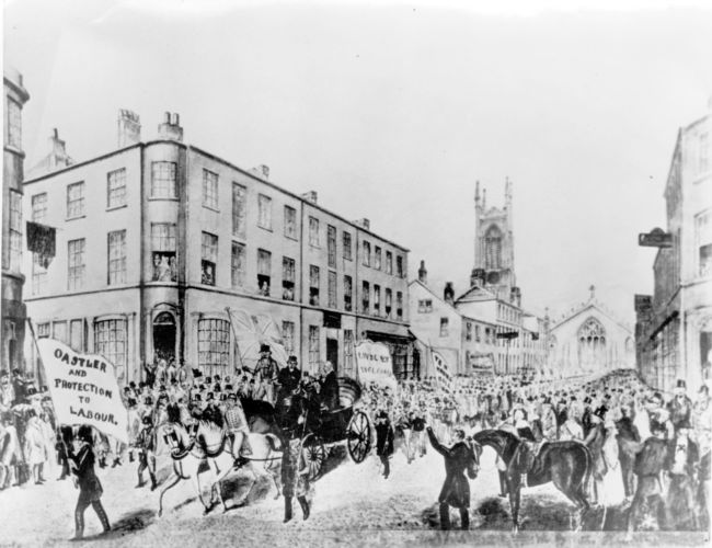 Richard Oastler returning to Huddersfield after being released from prison.